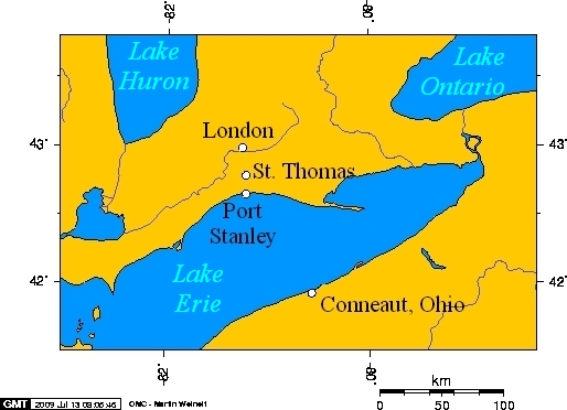 Port Stanley, St. Thomas and London, were the stations on the London and Port Stanley Railway. Railway ferries used to carry coal hopper cars from Conneaut Ohio to Port Stanley, which then proceeded to London.